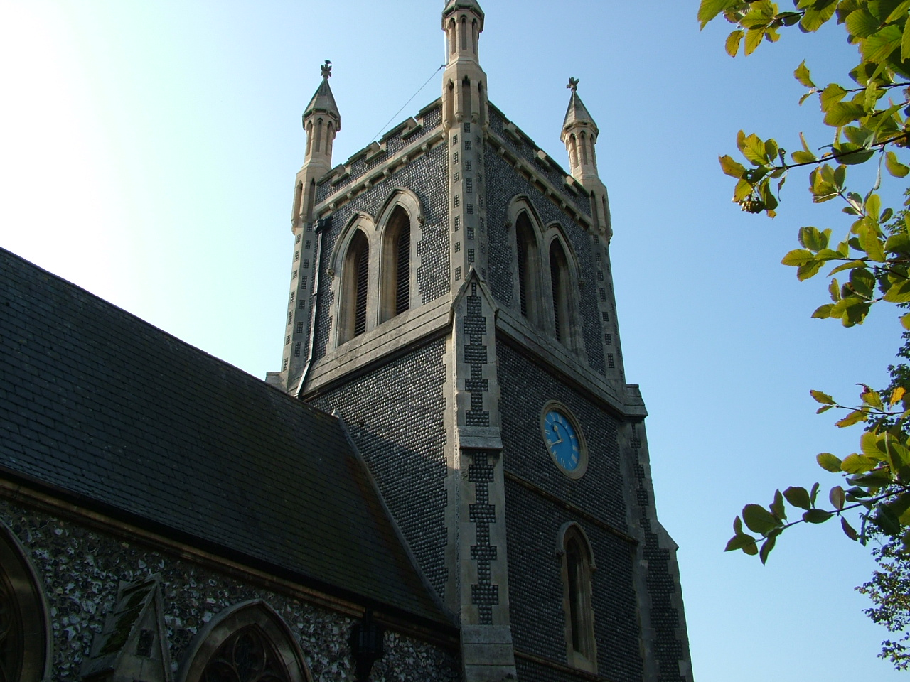 West tower of Holy Trinity Parish Church, Trinity Trees, Eastbourne, East Sussex, seen from the northeast